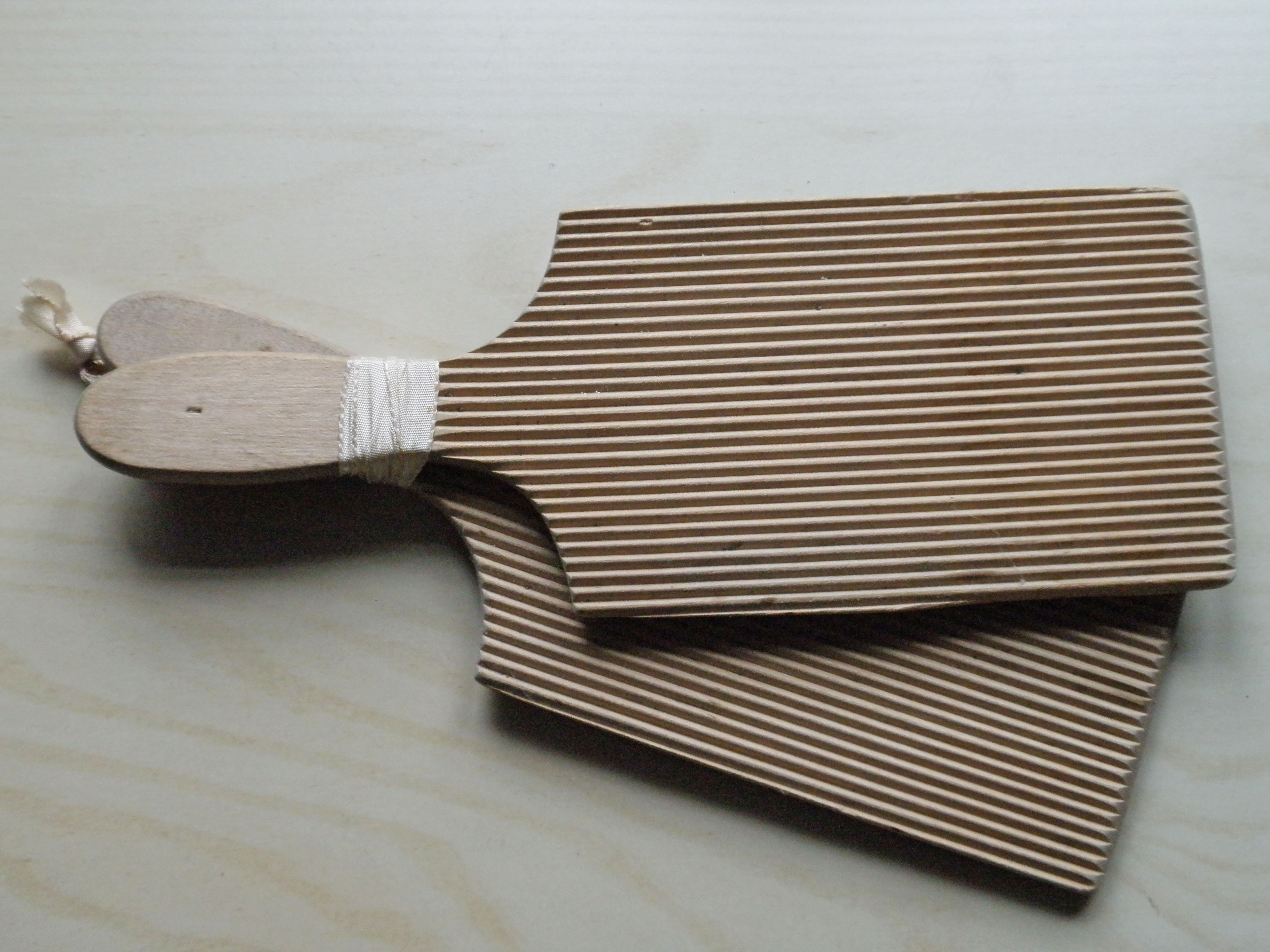 To bash your butter into shape